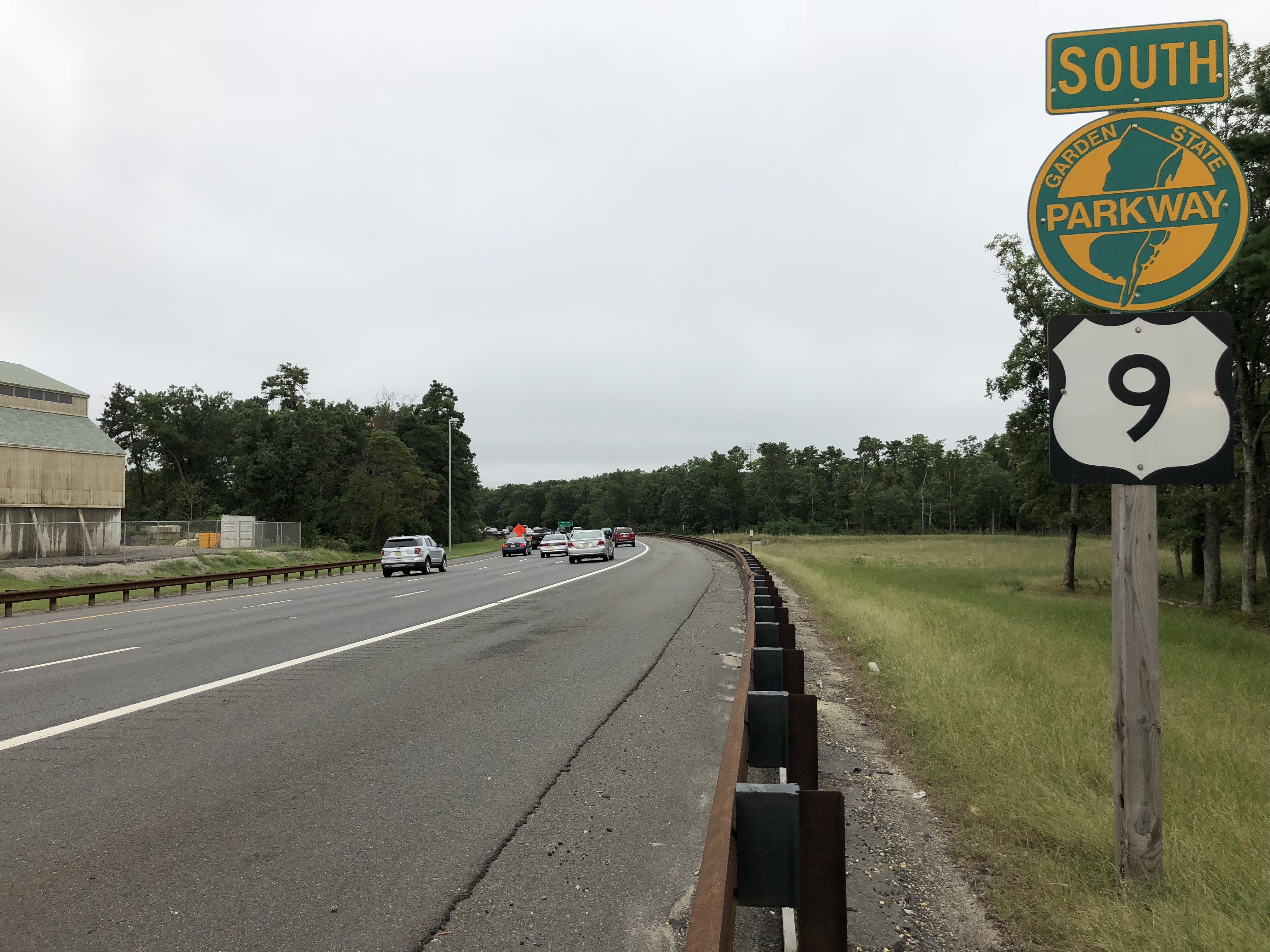 View south along U.S. Route 9 and New Jersey State Route 444 (Garden State Parkway) just north of Exit 82 in Toms River Township, Ocean County, New Jersey